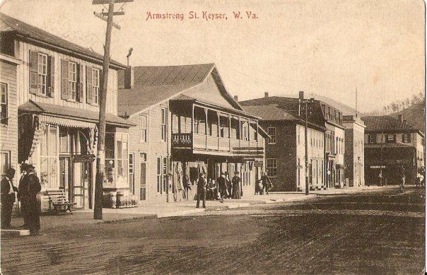 Armstrong Street in Keyser, WV, circa 1905